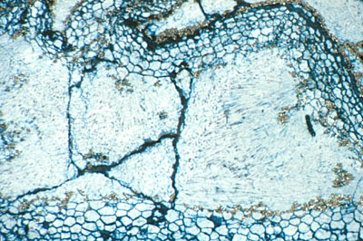 A thin section of a coal ball from Indiana, United States of America.